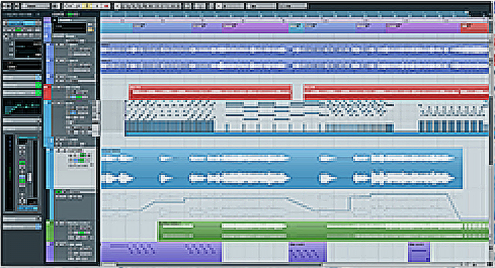 Cubase 6 feature collage Licensed under CC-BY-SA-3.0 on